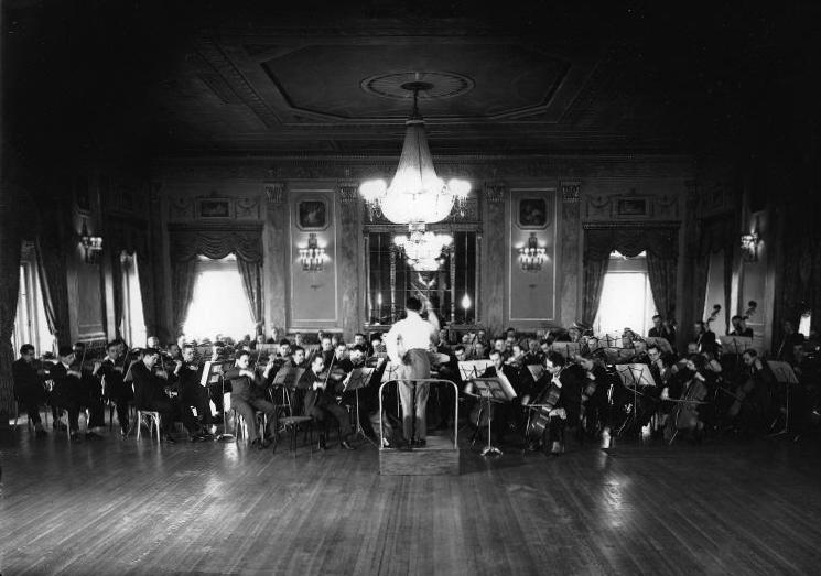 Photograph, Montreal Symphony rehearsal, Montreal, QC, 1934-35, Wm. Notman & Son, 1934-1935, Silver salts on film (nitrate) - Gelatin silver process - 20 x 25 cm